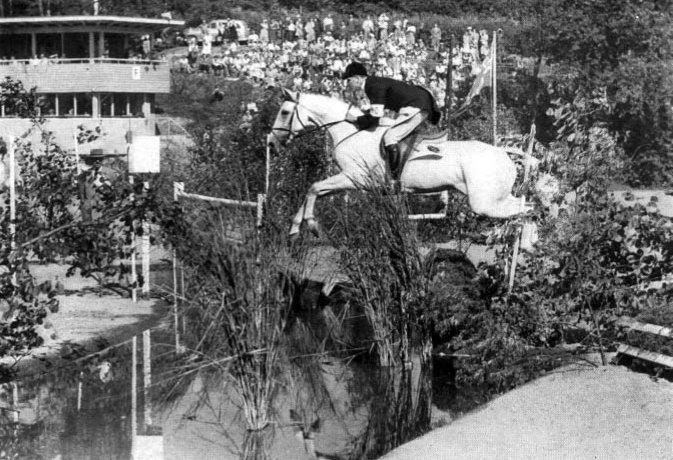 John Reginald Hindley and Speculation at the 1952 Summer Olympics in Helsinki.